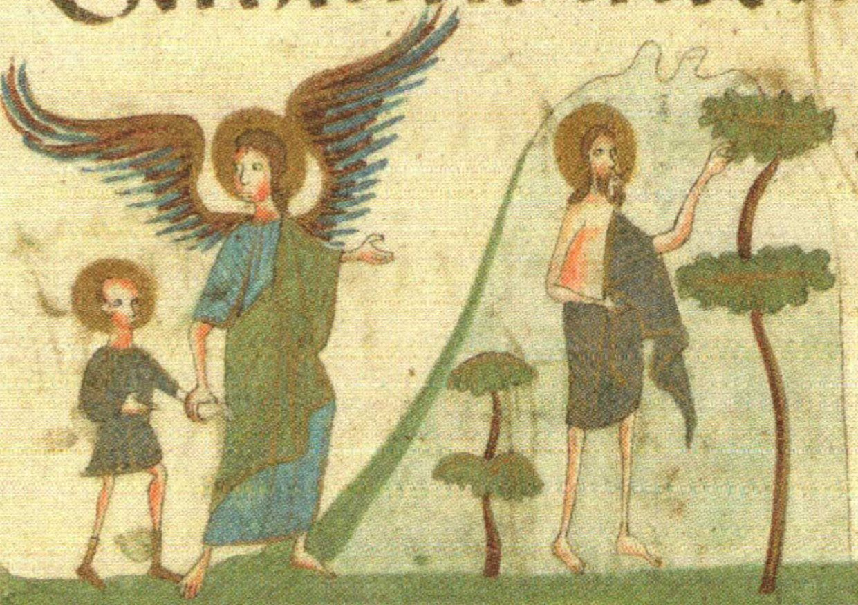 John the Baptist in the desert